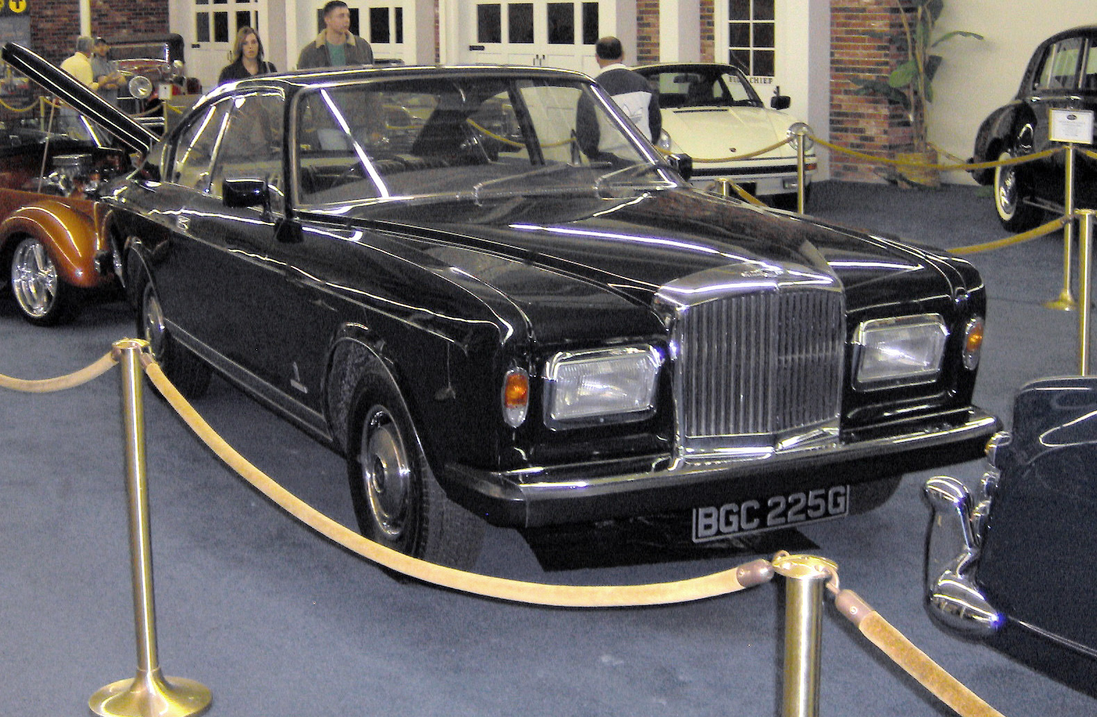 1968 Bentley T1 Pininfarina Coupe Speciale